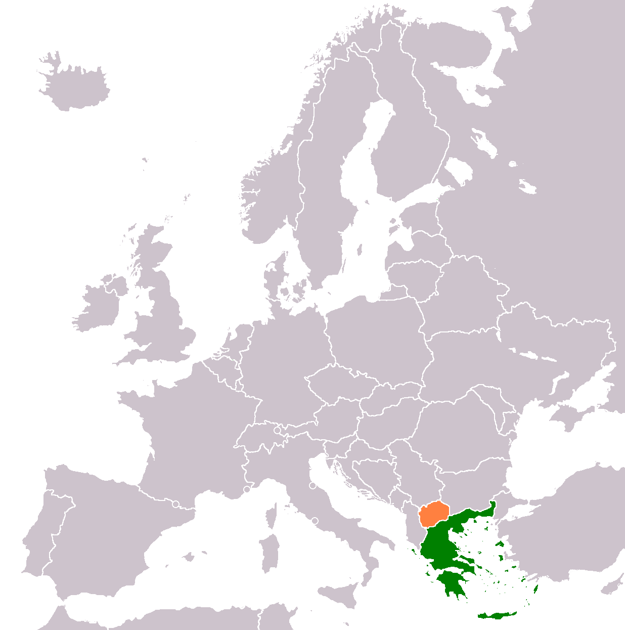 Map indicating location of Greece and Republic of Macedonia